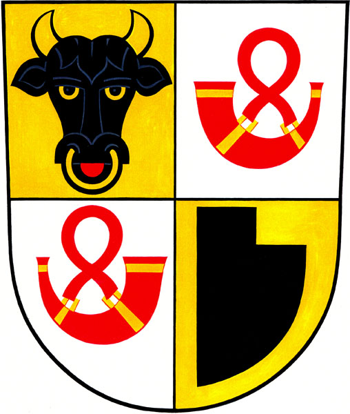 Municipal coat of arms of Troubky village, Přerov District, Czech Republic.